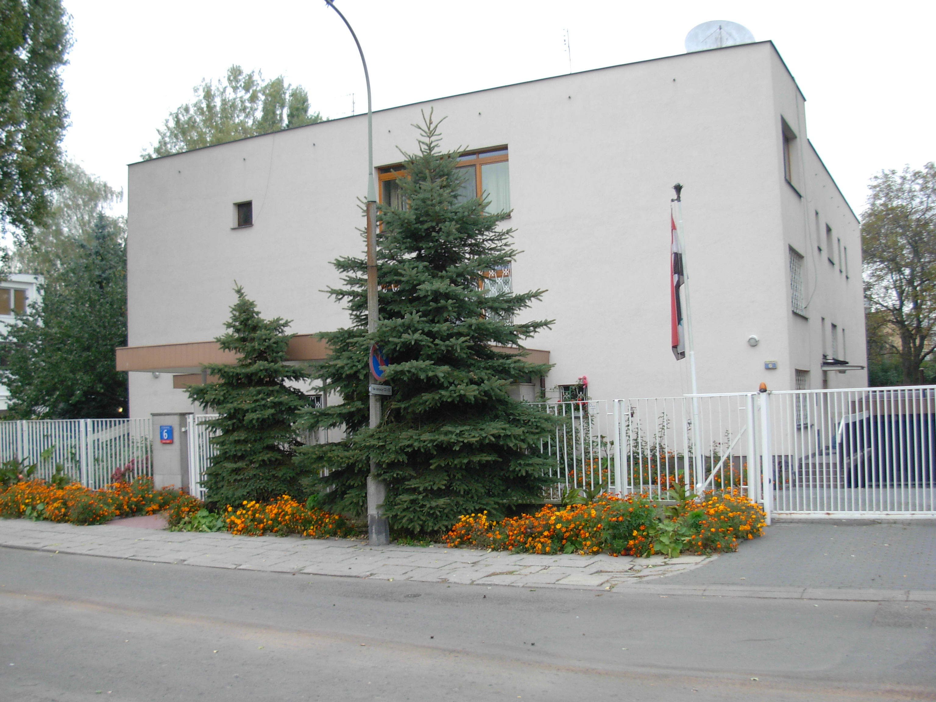 Iraqi Ambassador's Residence in Warsaw